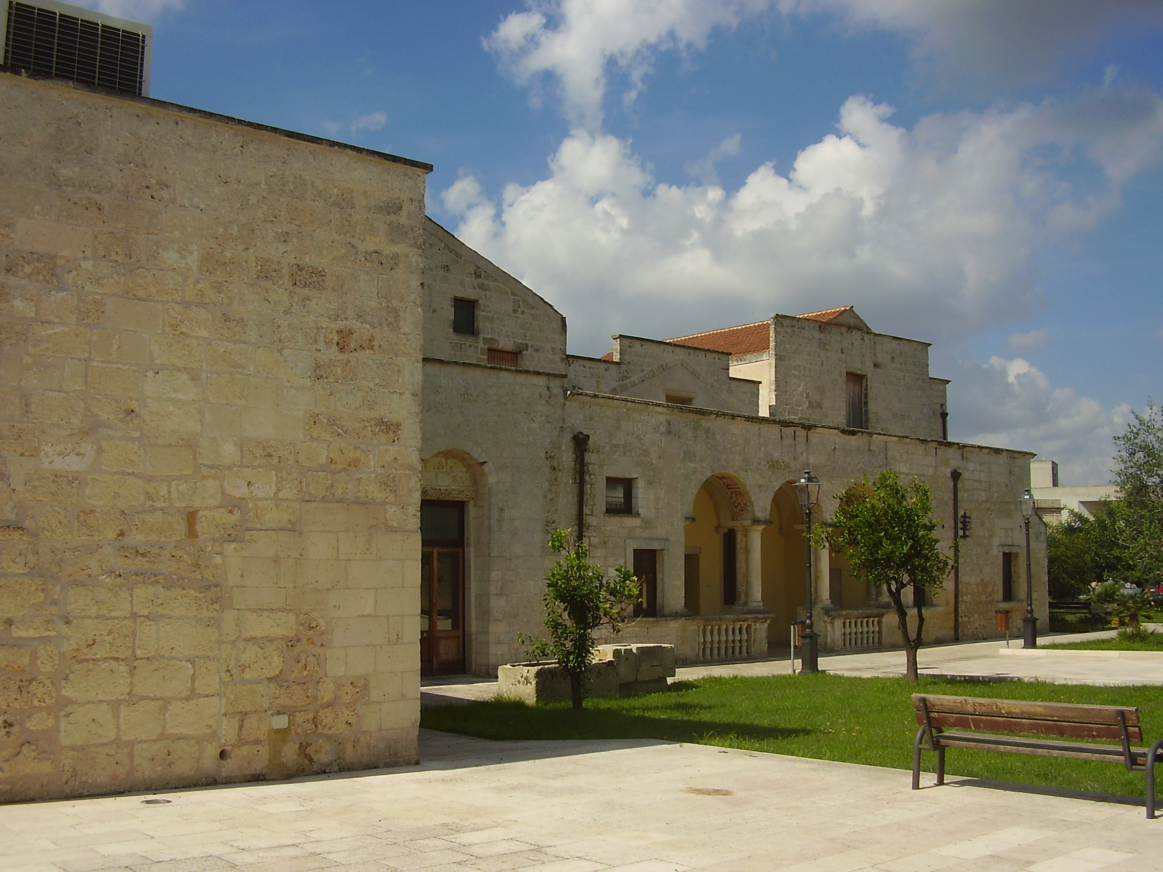 Baronial Palace of San Cassiano